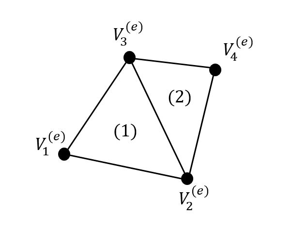 It shows the lattice of the finite element method and the potential at each point.